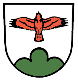 Coat of arms of Gerstetten